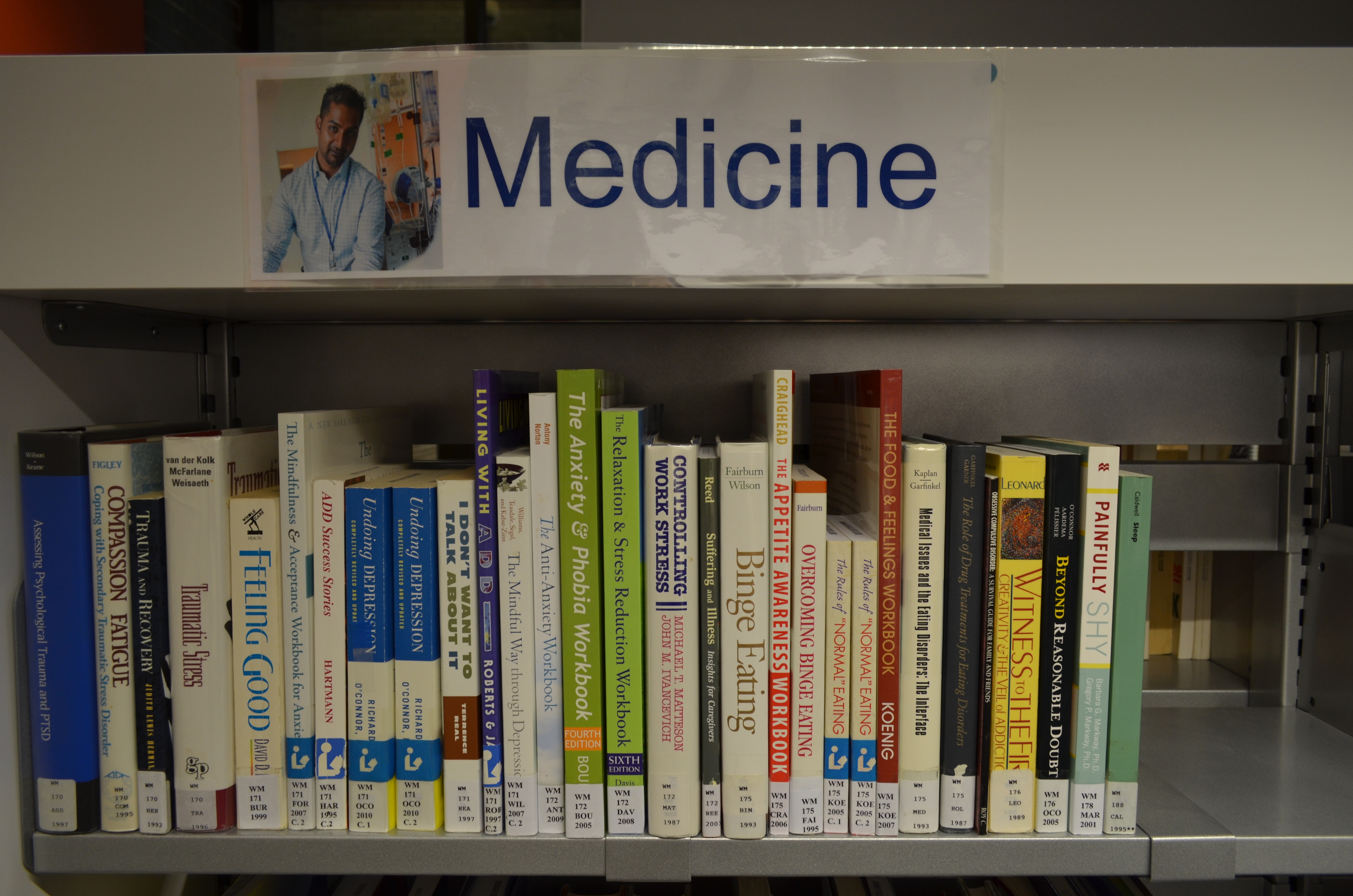 Markham Stouffville Hospital Library